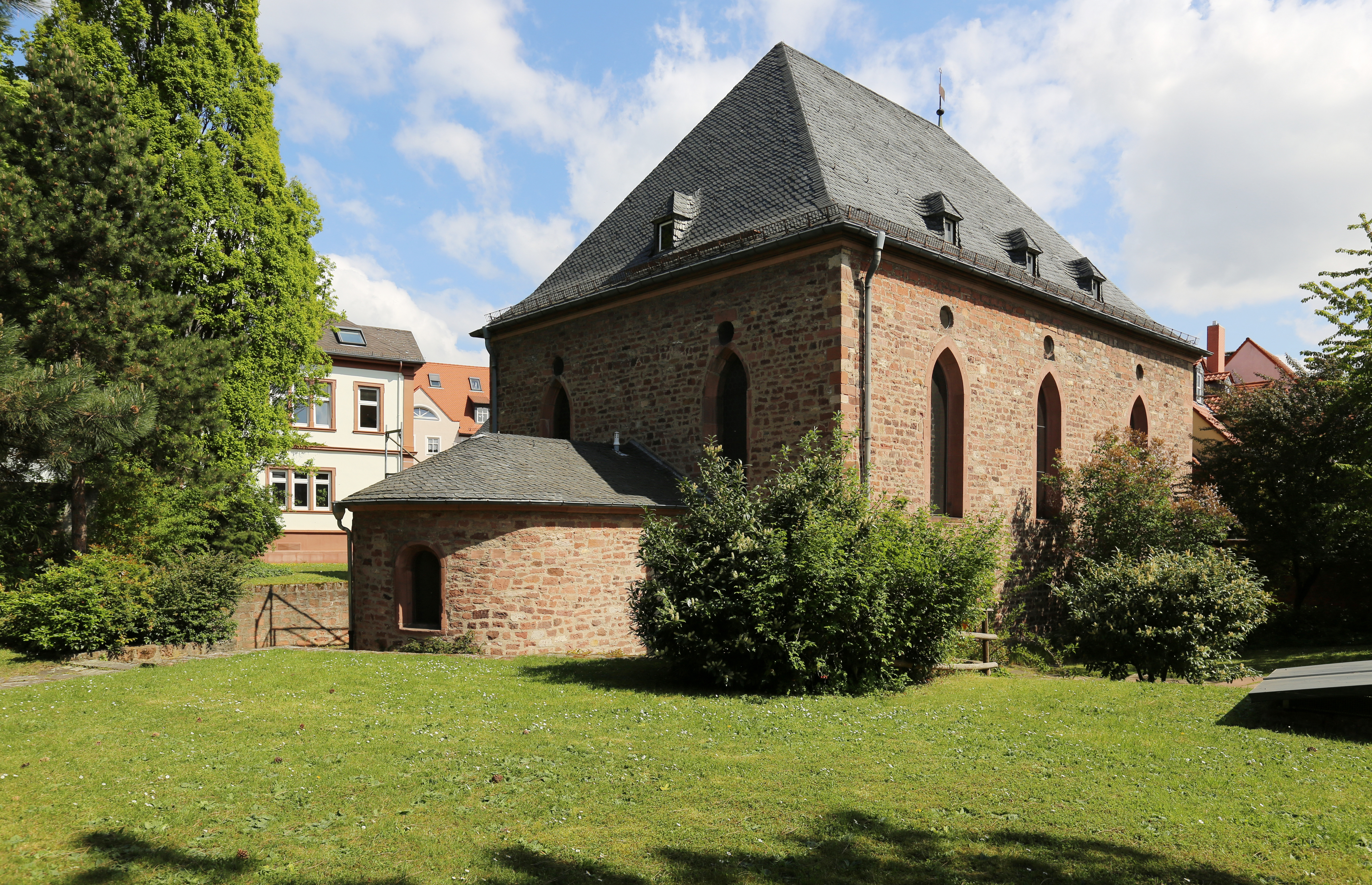 Synagogue Worms. Place of synagogue Worms 12, Rhineland-Palatinate, Germany